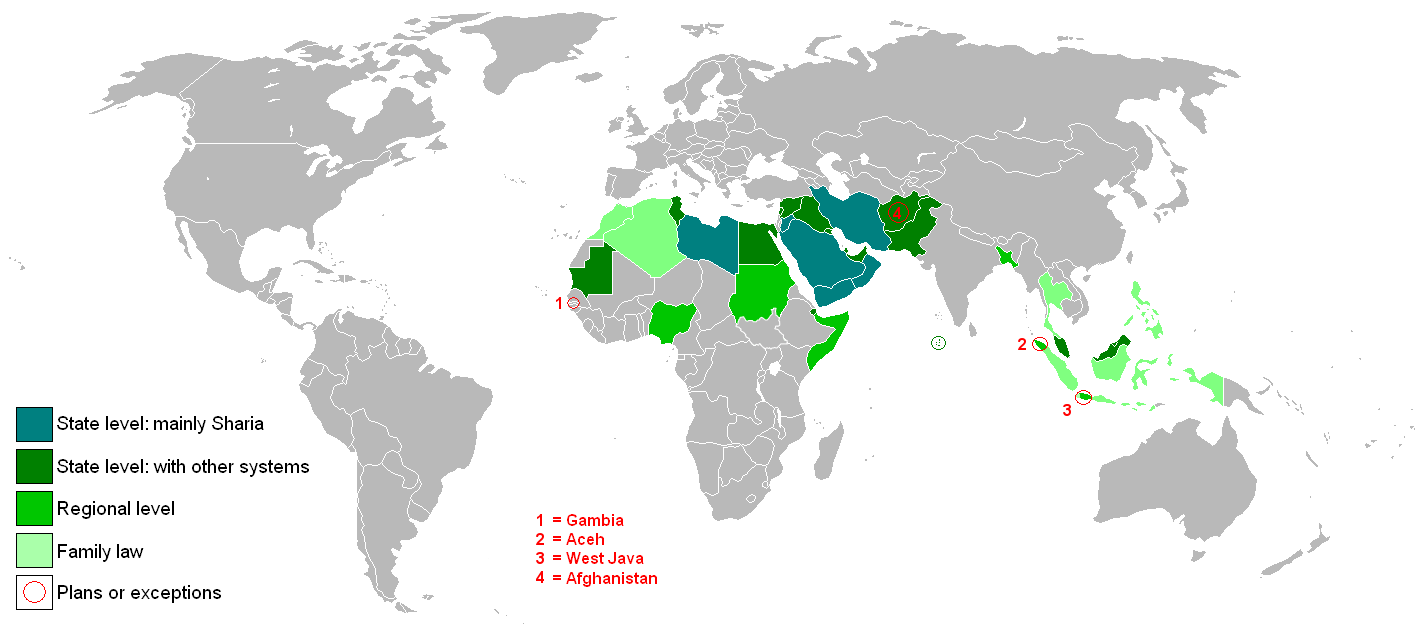 Countries with Sharia law.